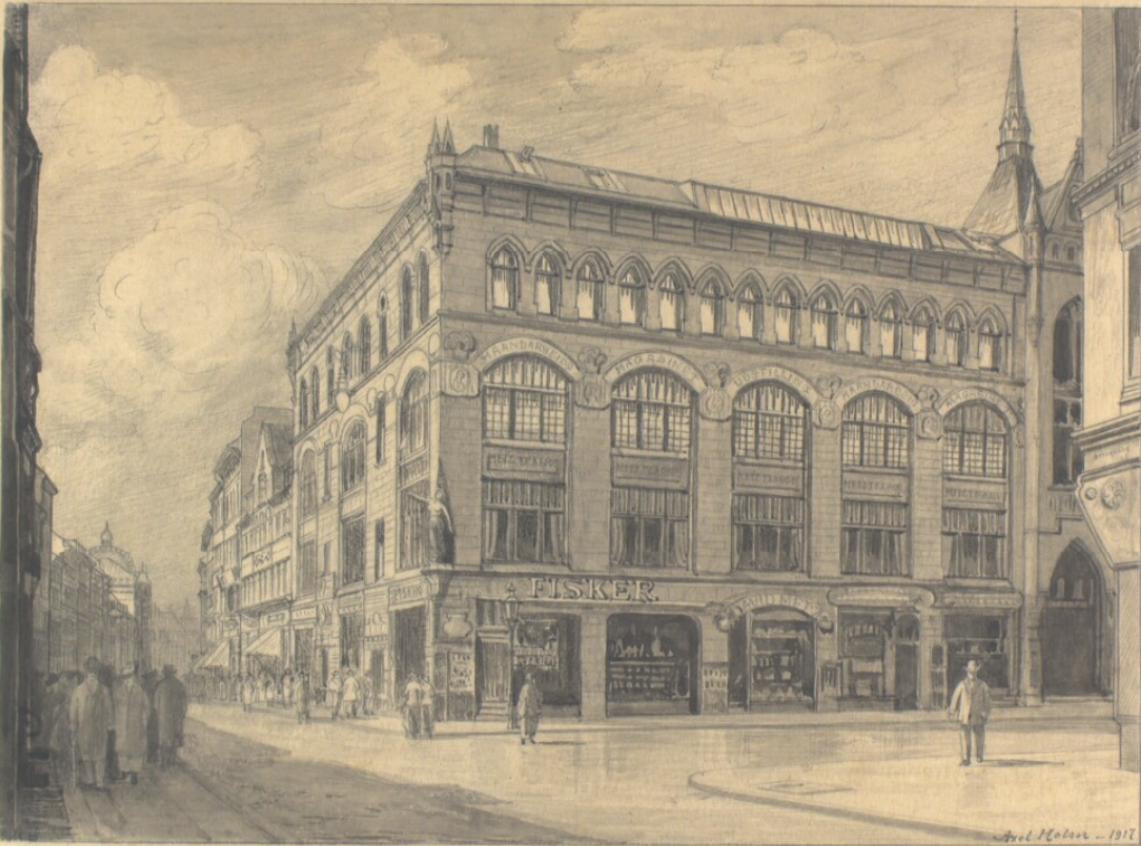 Volmerhus in Copenhagen, Denmark